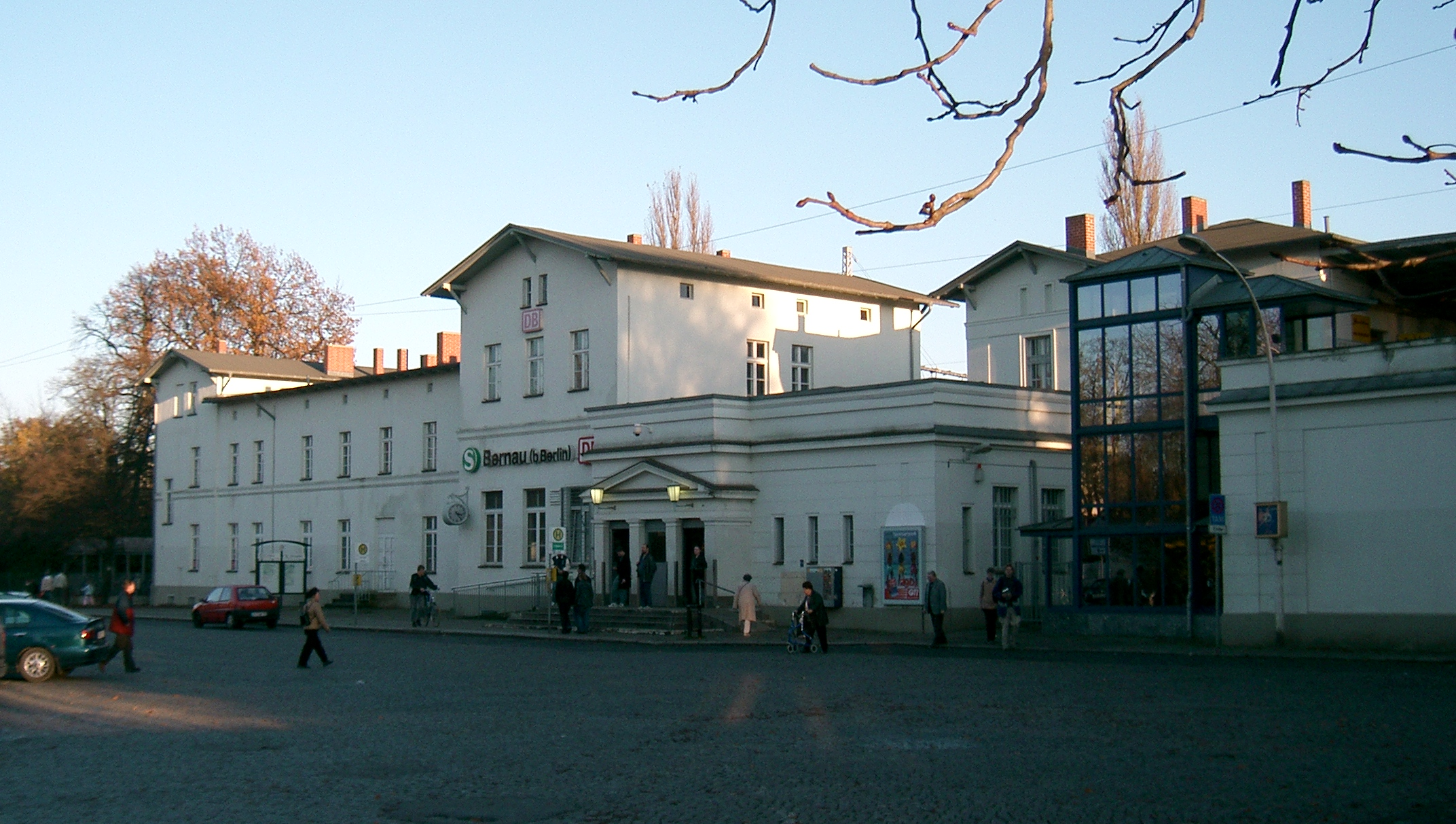 Railway station of the german city Bernau bei Berlin.